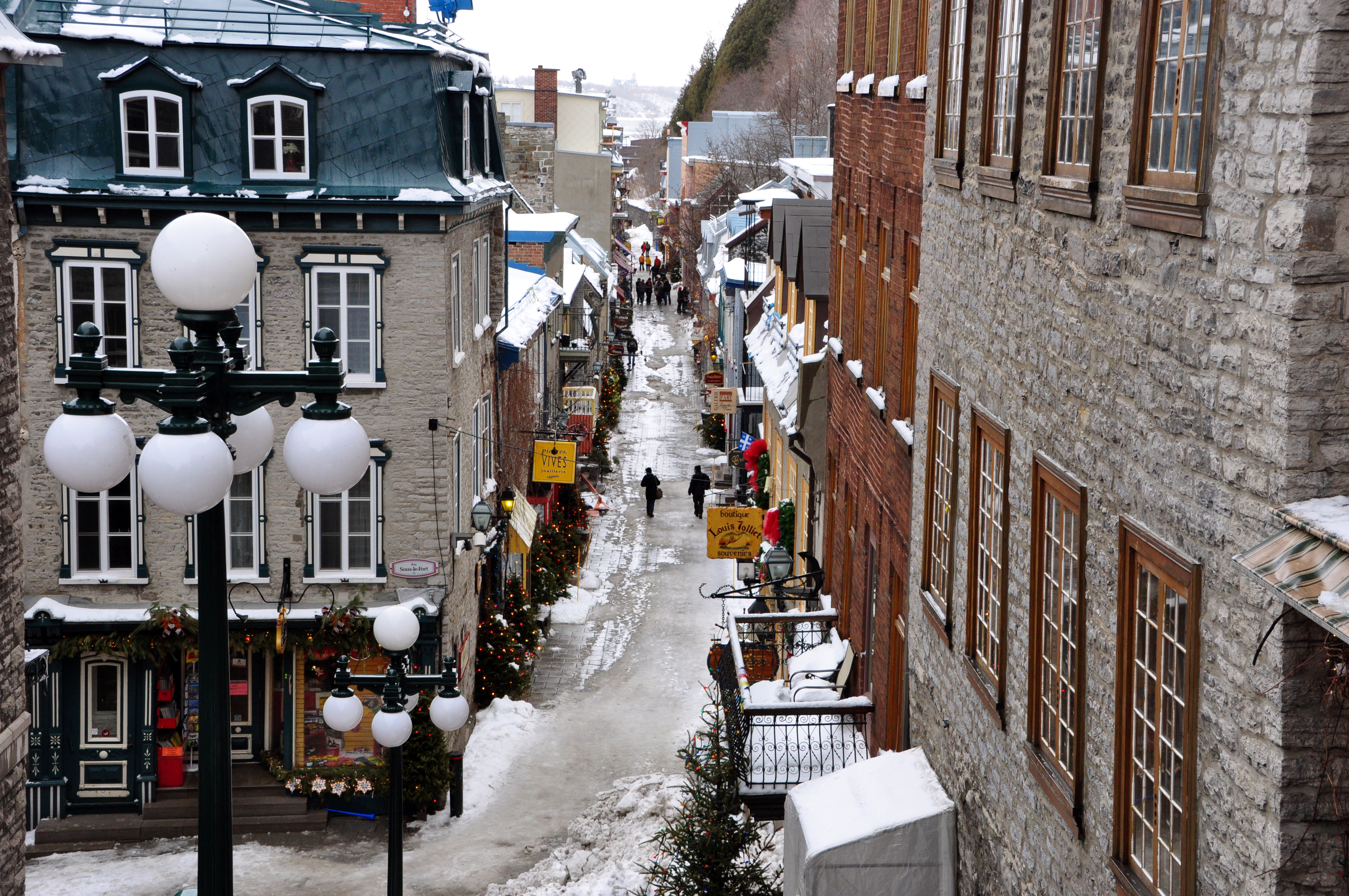 Quebec City lower town winter 2010